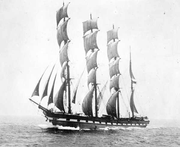 Creator unknown. Black and white photograph of Loch Torridon. Item held by State Library of Victoria as part of Malcolm Brodie shipping collection. Image number: H99.220/1092. Format: photograph gelatin silver; 10.7 x 13.0 cm. photograph: gelatin silver; 8.8 x 13.0 cm. Photograph taken prior to 1915.